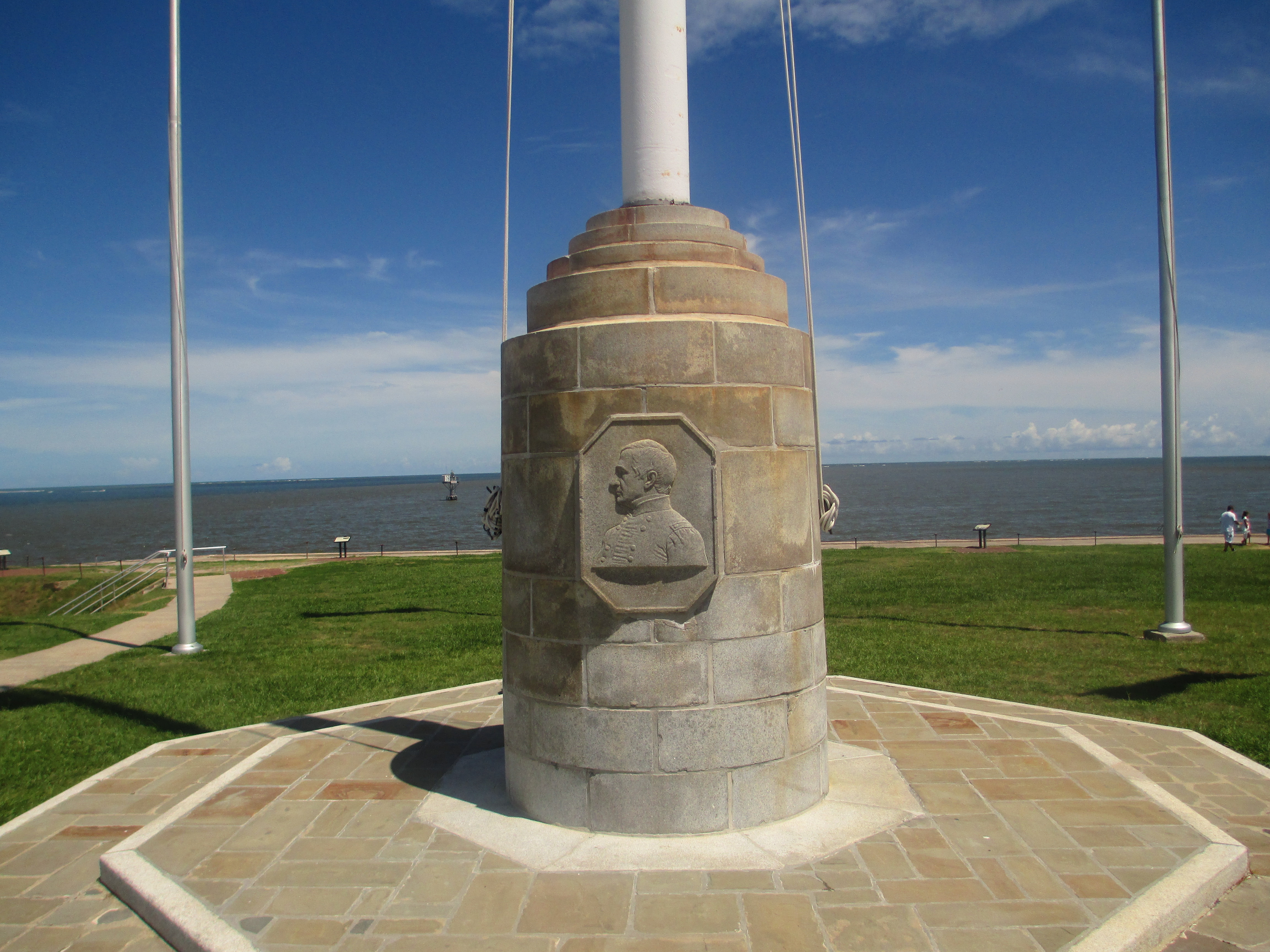 I took photo with Canon camera of Major Anderson monument at Fort Sumter, SC.